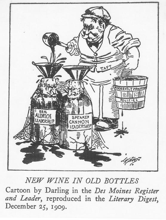 1909 US cartoon: President Taft tries to pour progressive ideas into Speaker of the House Cannon and U.S. Senate leader Nelson W. Aldrich.